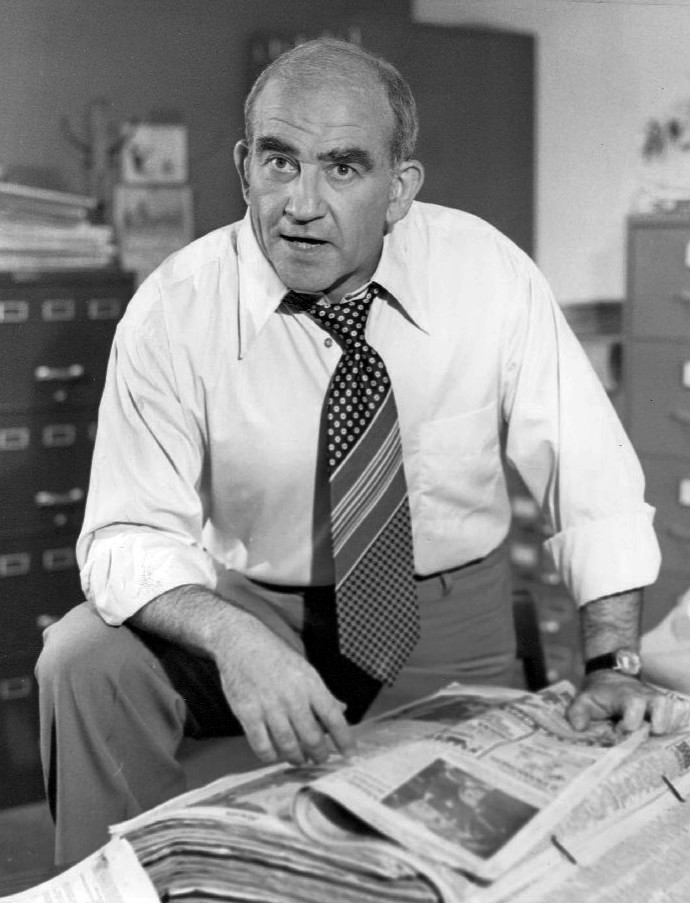 Photo of Ed Asner as Lou Grant from the premiere of the television program Lou Grant.